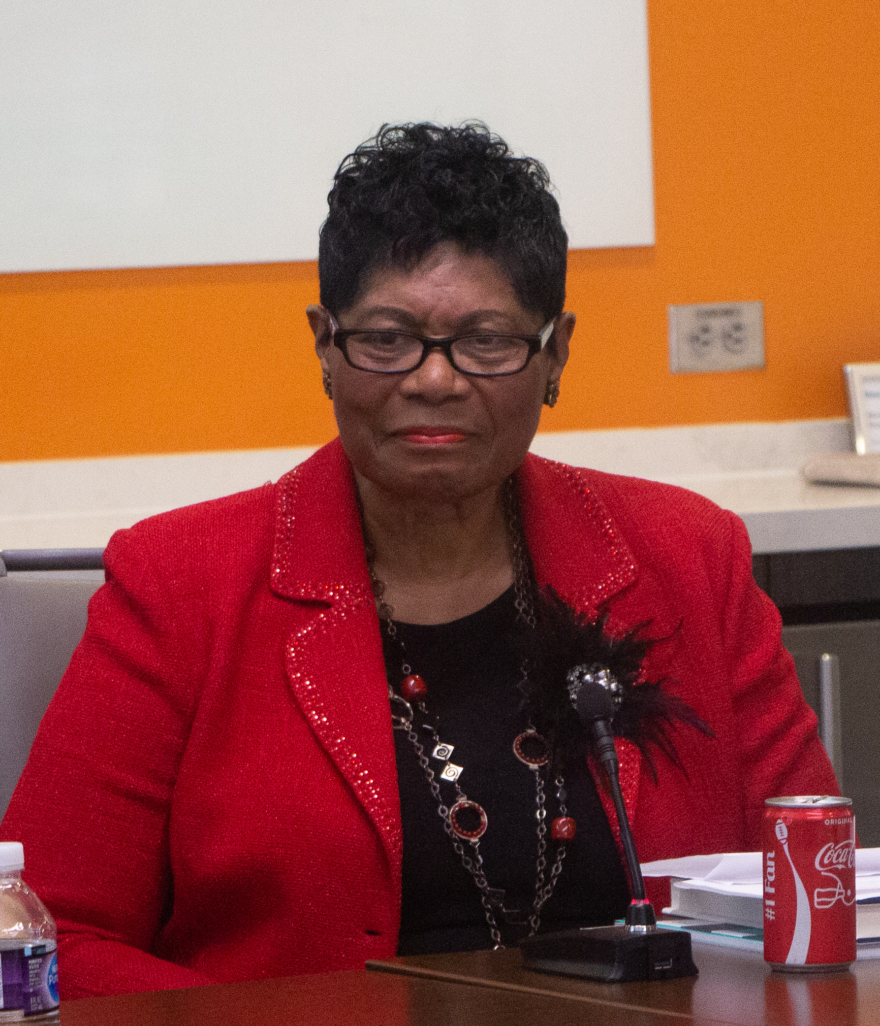 Bunnatine "Bunny" Greenhouse Professor, Northern Virginia Community College Former Principal Assistant Responsible for Contracting (PARC),US Army Corps of Engineers Whistleblower